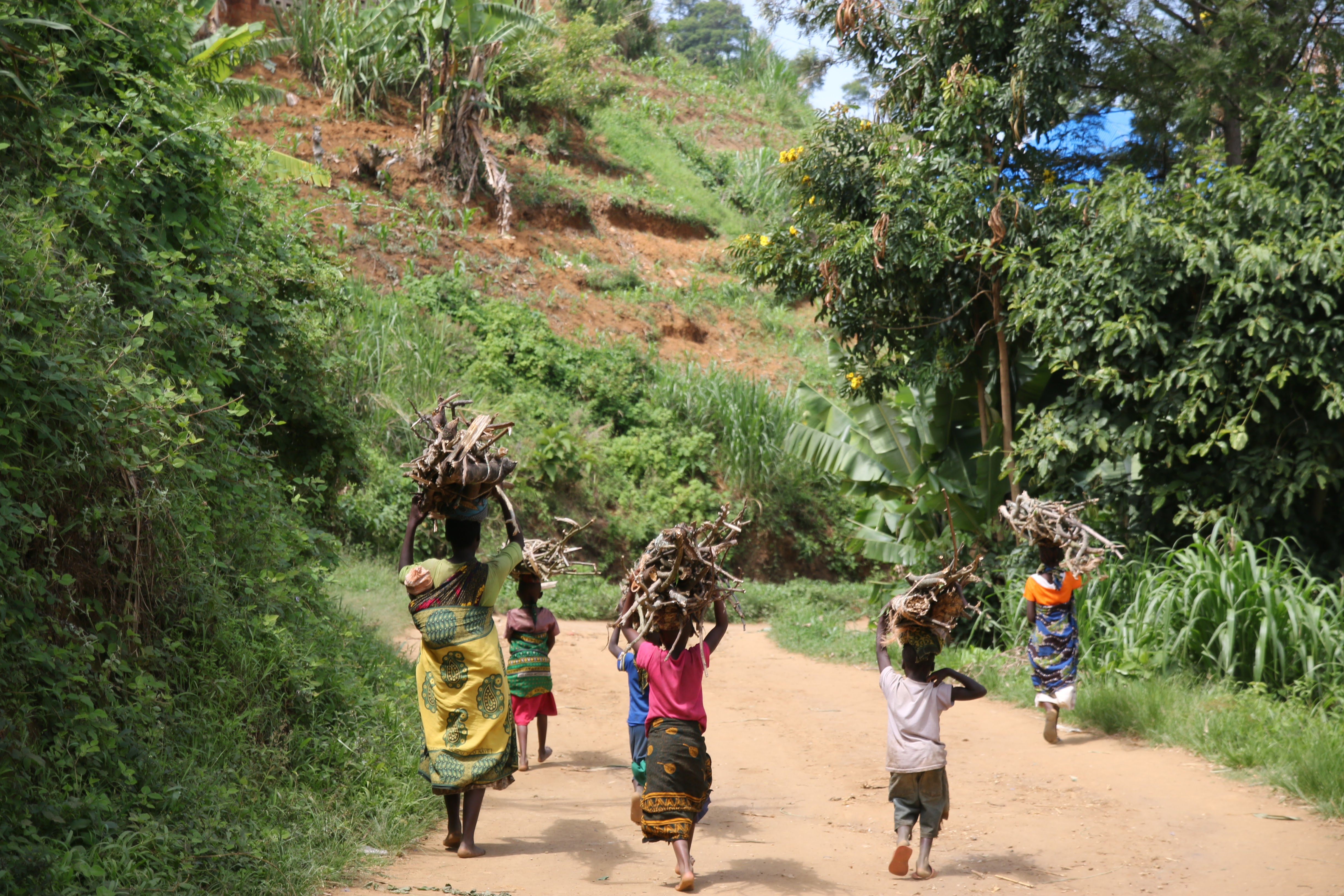 This photo was taken near Bunduki in the Uluguru mountains of central Tanzania. Firewood was the only fuel that was readily available to these people and had to be carried for several kilometres back to their homes. This is an image with the theme "Africa on the Move or Transport" from: Tanzania